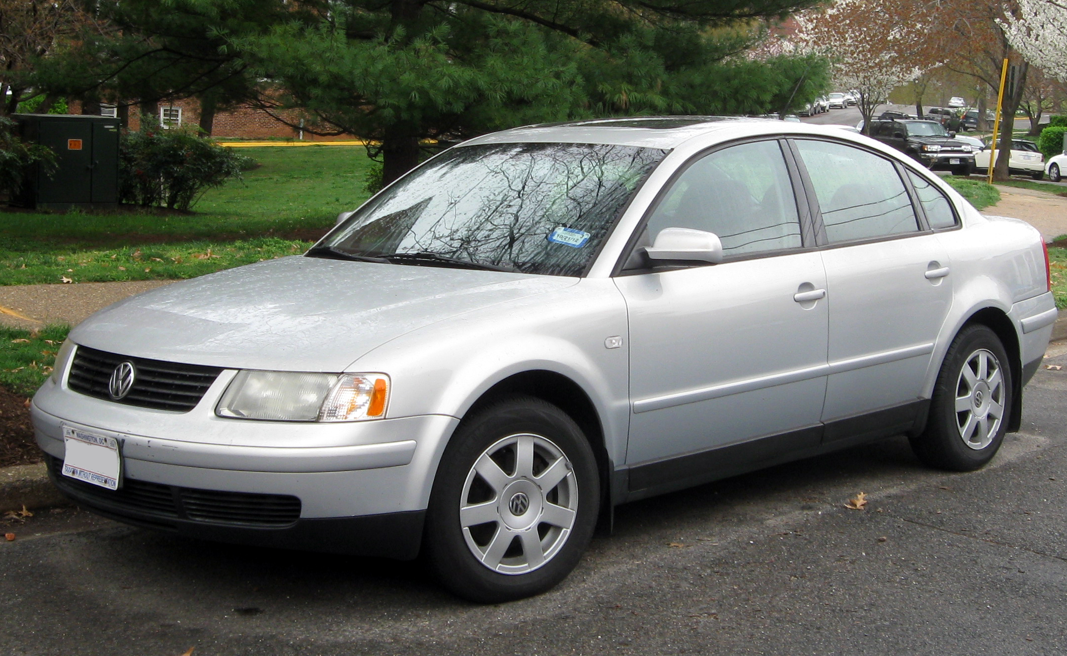 1998-2001 Volkswagen Passat photographed in Washington, D.C., USA.